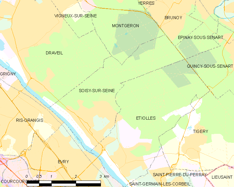 Map of French municipality Soisy-sur-Seine